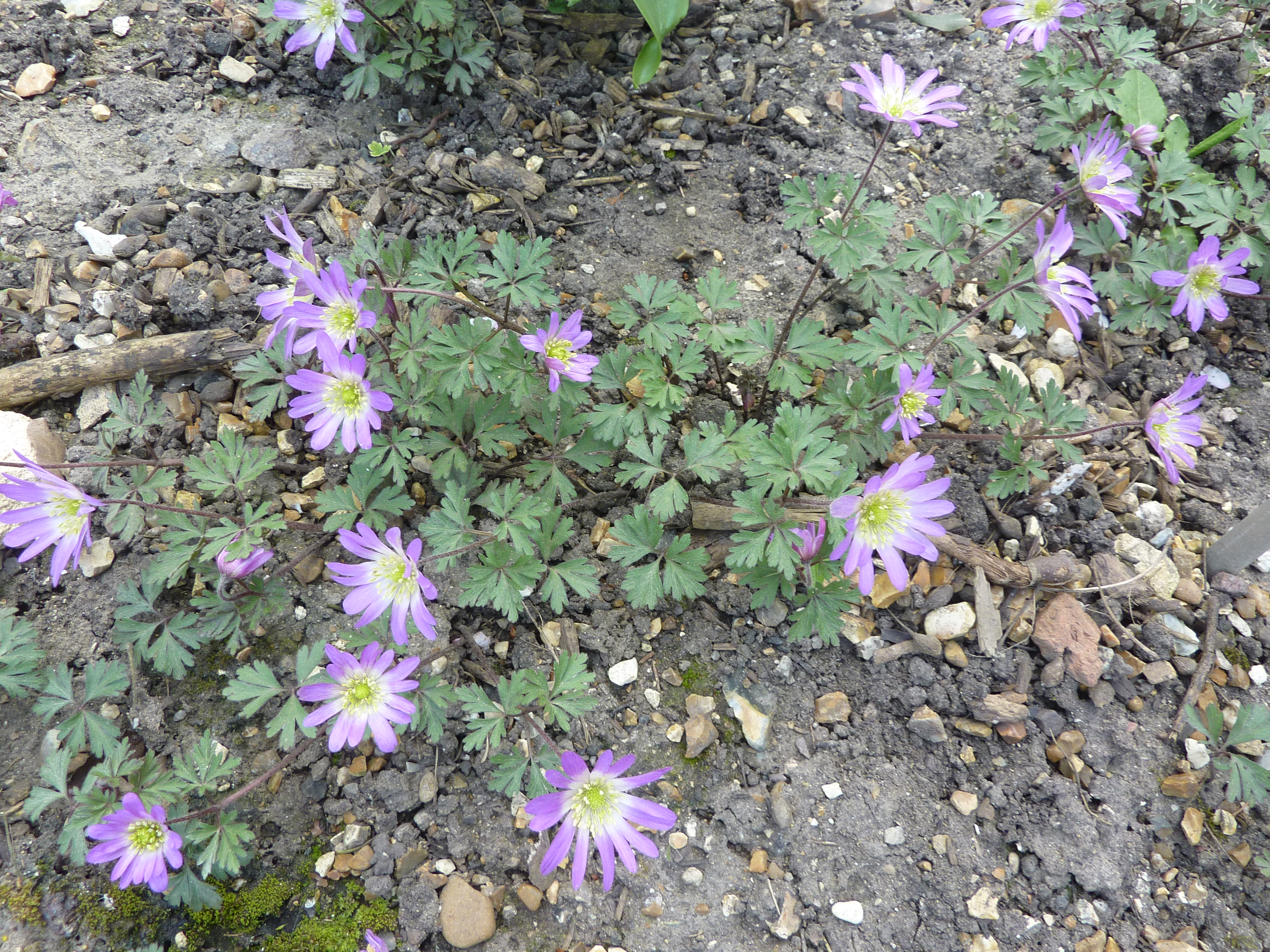 Taken in the Cambridge University Botanic Garden.